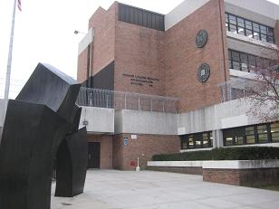 I.S.72 screenshot